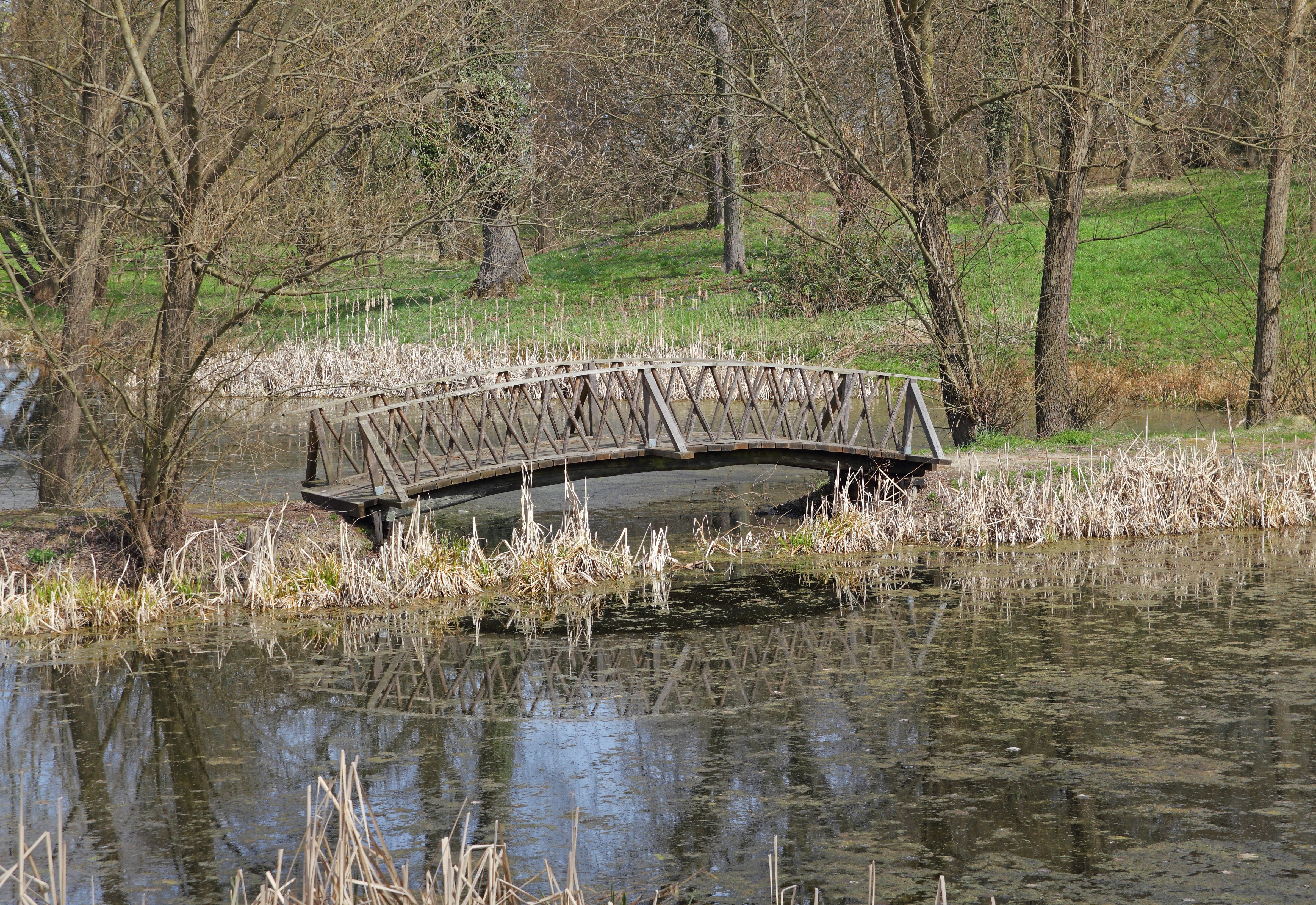 Castle and landscape garden in Madlitz-Wilmersdorf, Brandenburg, Germany